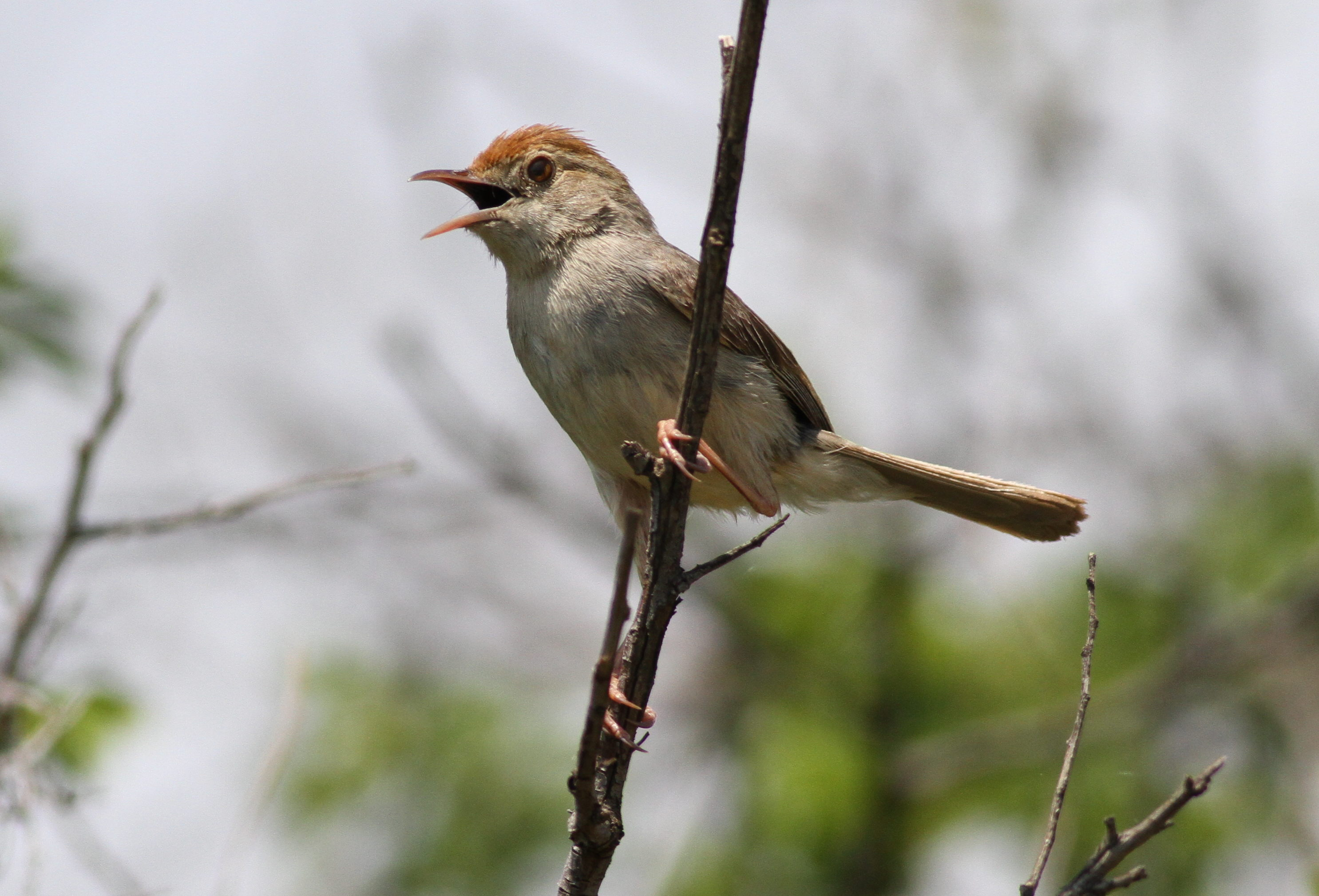 Neddicky, or piping cisticola, Cisticola fulvicapilla at Pilanesberg National Park, Northwest Province, South Africa